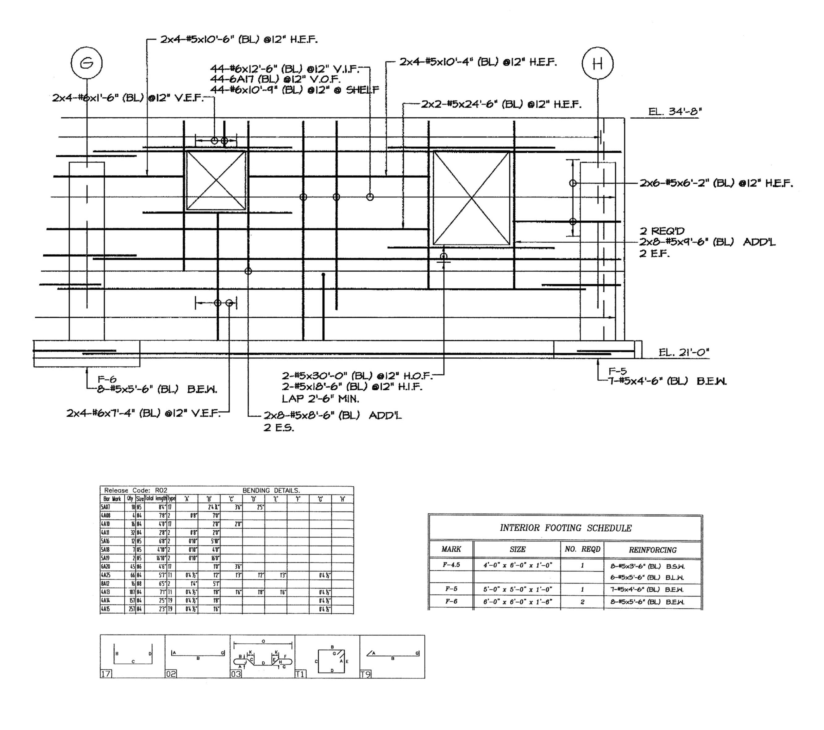 Sample Shop Drawing for Steel Reinforcement on a Foundation wall. Layout elevation and bending schedules shown.